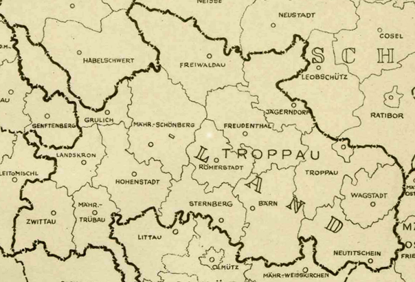 Map of the Northern Moravia region of Sudetenland prepared by the State Planning Community of the Third Reich in approximately 1939.